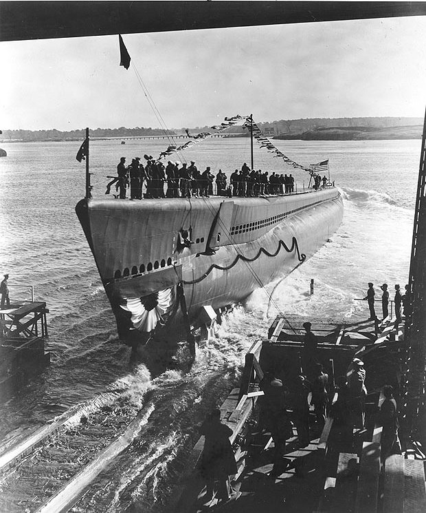 USS Balao (SS-285) launching, at the Portsmouth Navy Yard, Kittery, Maine, 27 October 1942.